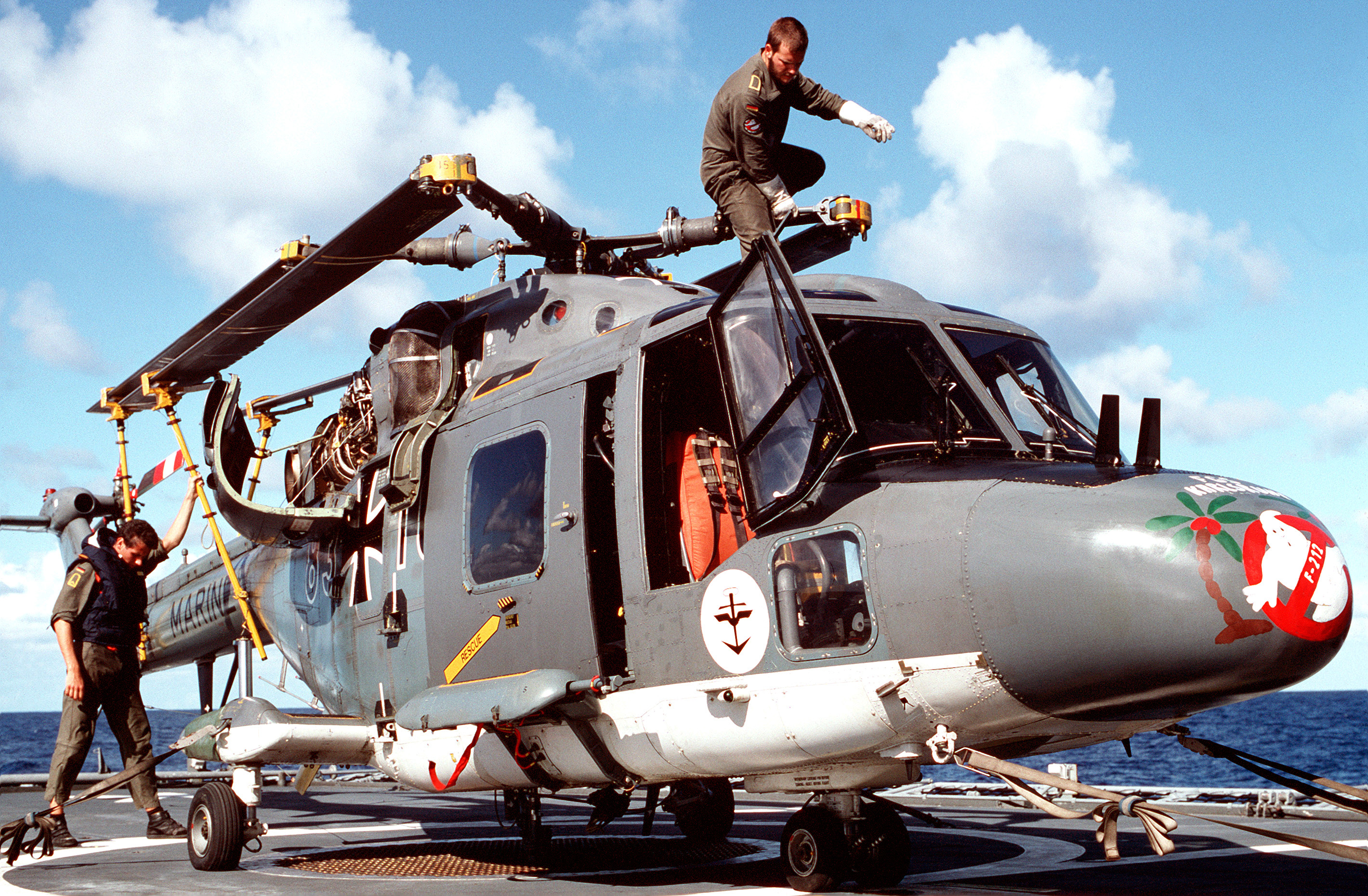 Crewmen secure the rotor blades of a Westland Lynx Mk.88 helicopter on the flight deck of the West German frigate Karlsruhe (F-212) during the Fleet Ex 1-90 exercise on 4 February 1990. Note the "Ghostbusters"-emblem on the radome of the Lynx.